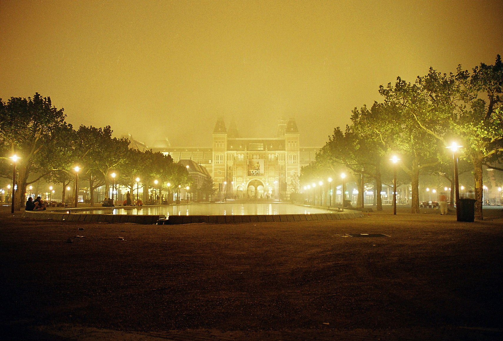 Rijksmuseum Native nameRijksmuseum AmsterdamLocationAmsterdamCoordinates52° 21′ 35.89″ N, 4° 53′ 07.17″ E Established1800Web pagerijksmuseum.nlAuthority control : Q190804 VIAF: 159624082 ISNI: 0000 0001 2196 1335 ULAN: 500246547 LCCN: n79007489 NLA: 36126463 WorldCat institution QS:P195,Q190804 Rijksmuseum, Amsterdam, August 2003.